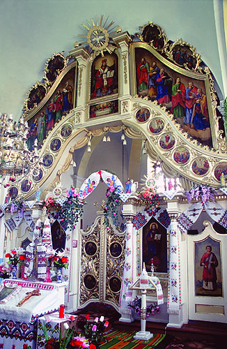 Ikonostas in Holy Trinity Church in Gologory (1870)